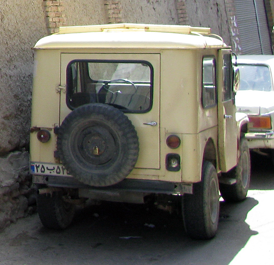 Sherkat-Sahami Shahbaz 4WD Hardtop jeep (CJ5), 292ci six with 100hp (3.75 x 3.50in). Sherkat-Sahami was a predecessor to Pars Khodro.